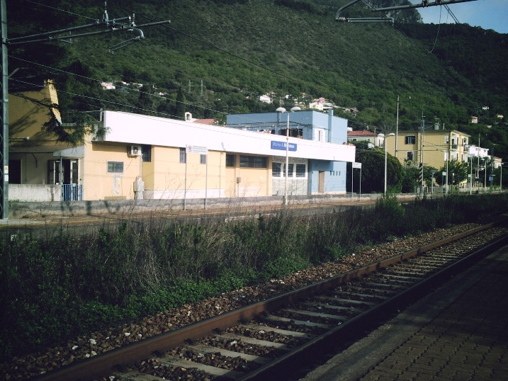 Railway station in Maratea Marina.